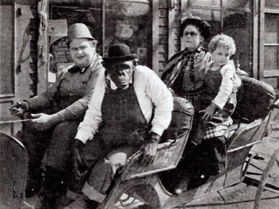 Still from the American comedy short film A Small Town Hero (1922) with Hilliard Karr, on page 89 of the April 8, 1922 Exhibitors Herald.